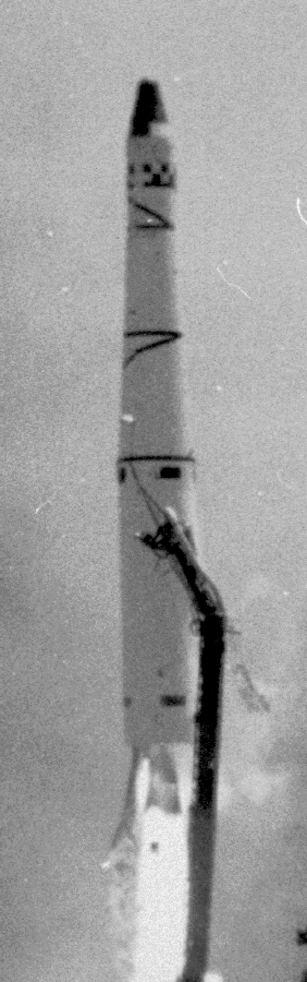 Launch of the Thor Agena A rocket with the Discoverer 6 satellite (Corona KH-1 type), 19 August 1959.